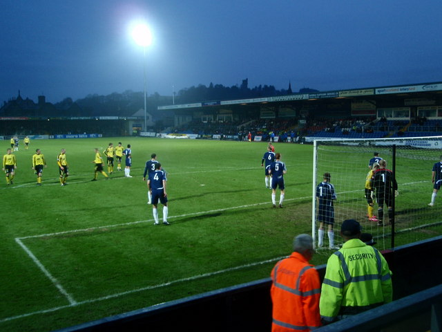 Ross County v Livingston The Irn Bru Scottish First Division clash between Ross County FC and visitors Livingston FC. Livi triumphed 4-1 on the day. YAY!